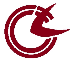 Mori Shizuoka chapter